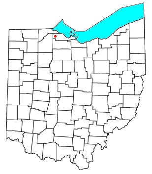 Locator map of the unincorporated community of Forest Park in Ottawa County, Ohio, United States.